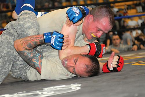 Staff Sgt. Nate Ford, bottom, of Fort Benning, Ga., battles a bloodied Sgt. Joe Clark of Fort Lewis, Wash., for the flyweight division championship Oct. 27, during the U.S. Army Combatives Tournament. Clark captured the title after the referee stopped the match in the second round.